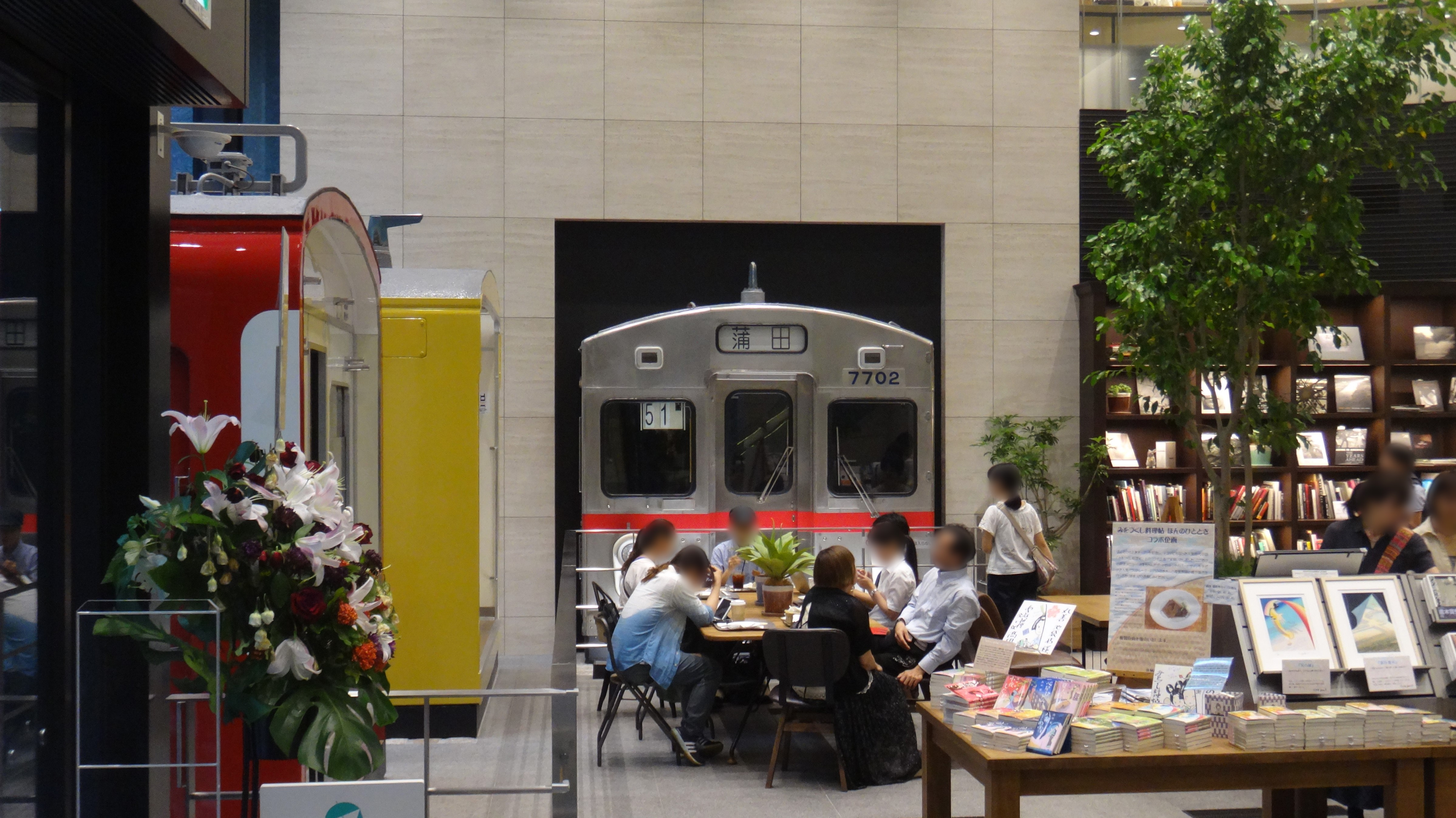 The cab end of former Tokyu 7700 series EMU car 7702 inside the Maruzen store in Minami-Ikebukuro, Toshima-ku, Tokyo, Japan